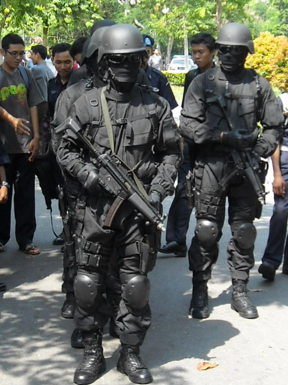 Malaysian UNGERIN anti-terror-police on the Community Policing show on May 23rd, at the Muar in Johore, Malaysia.